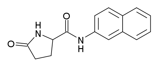 Structure of pyrrolidonylbetanaphthylamide